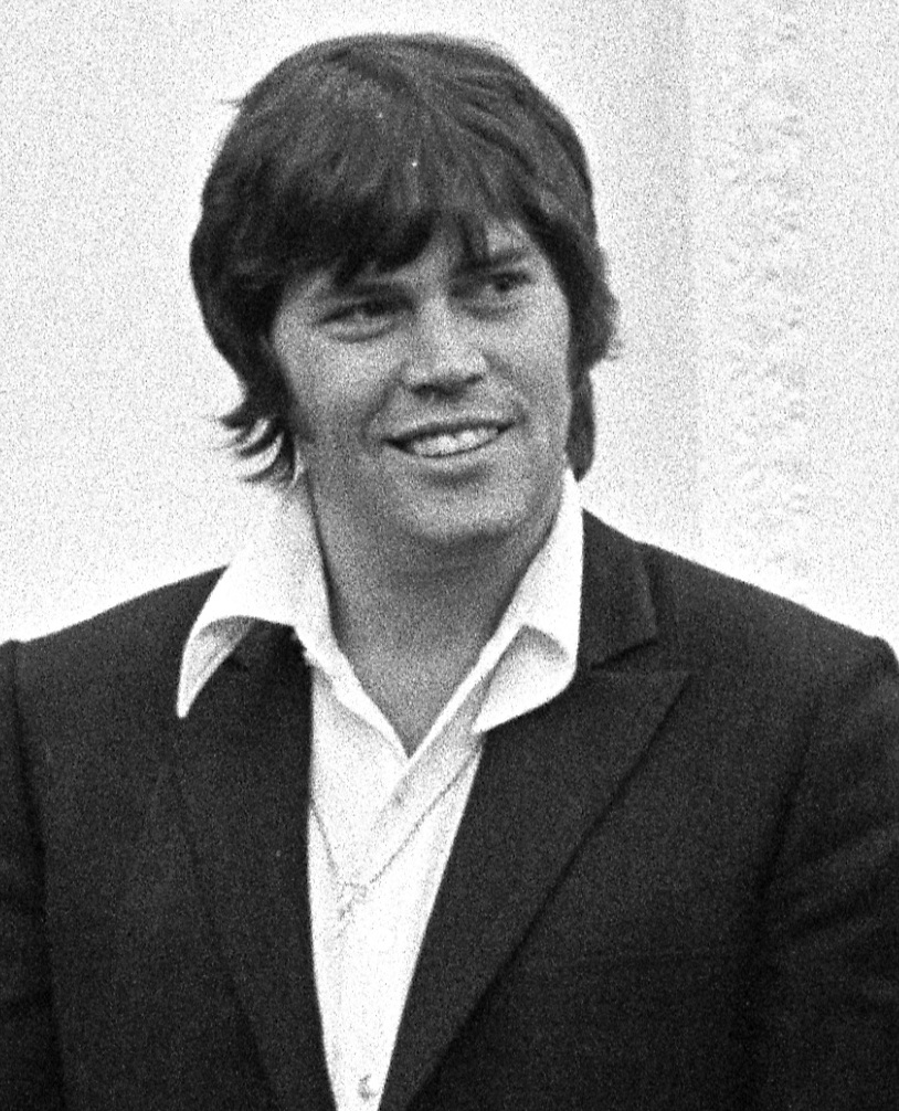 Elvis Presley Information Network, public domain photograph in black and white, December 21, 1970. President Richard Nixon, Sonny West, Jerry Schilling, and Elvis Presley in The Oval Office.